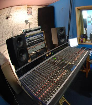 Allen and Heath GS3000 valve-preamp mixing console installed at the Furnace Recording Studio in Bulgaria. (